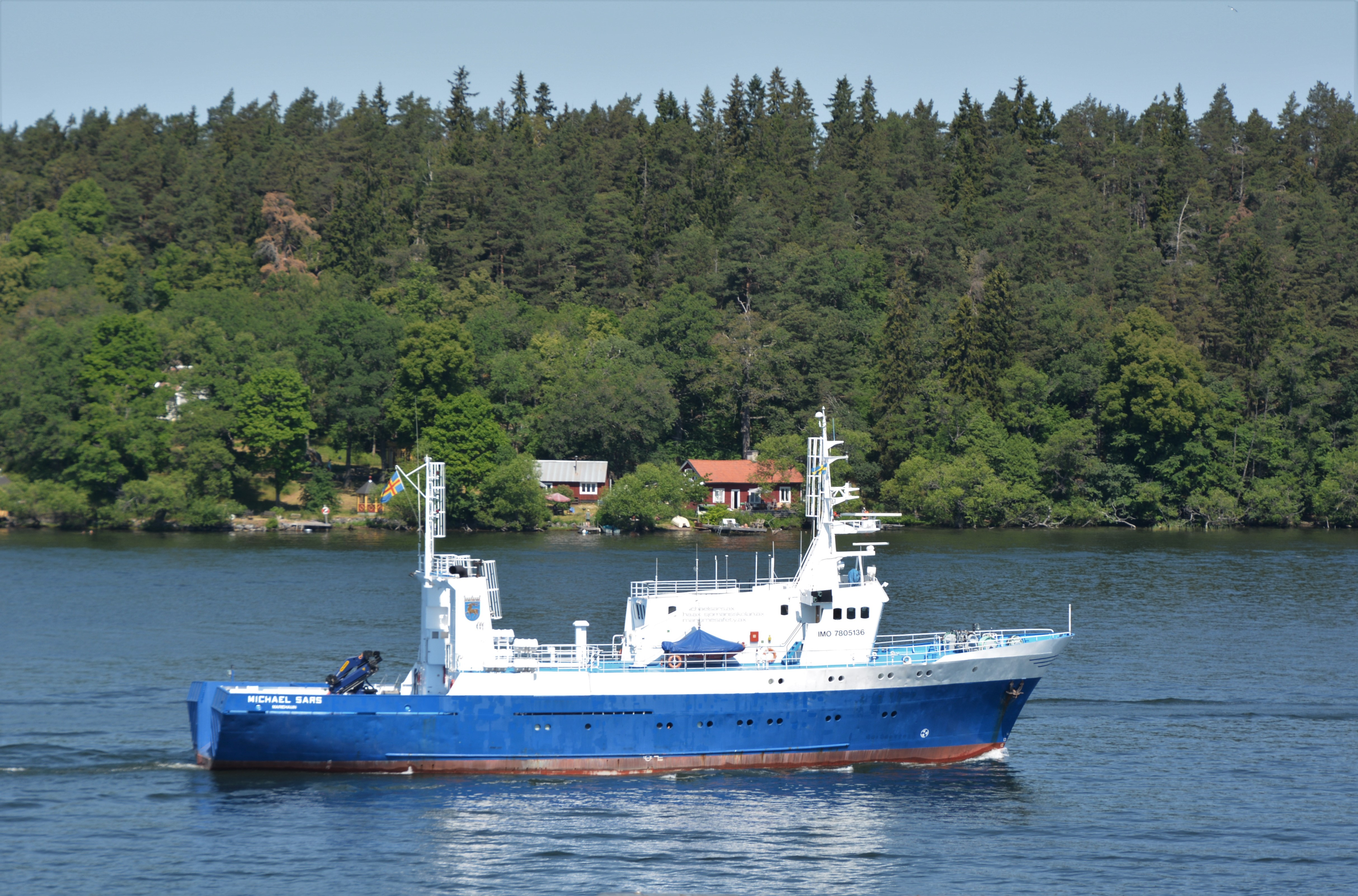 School ship Michal Sars from Åland, in Lake Mälaren i Stockholm